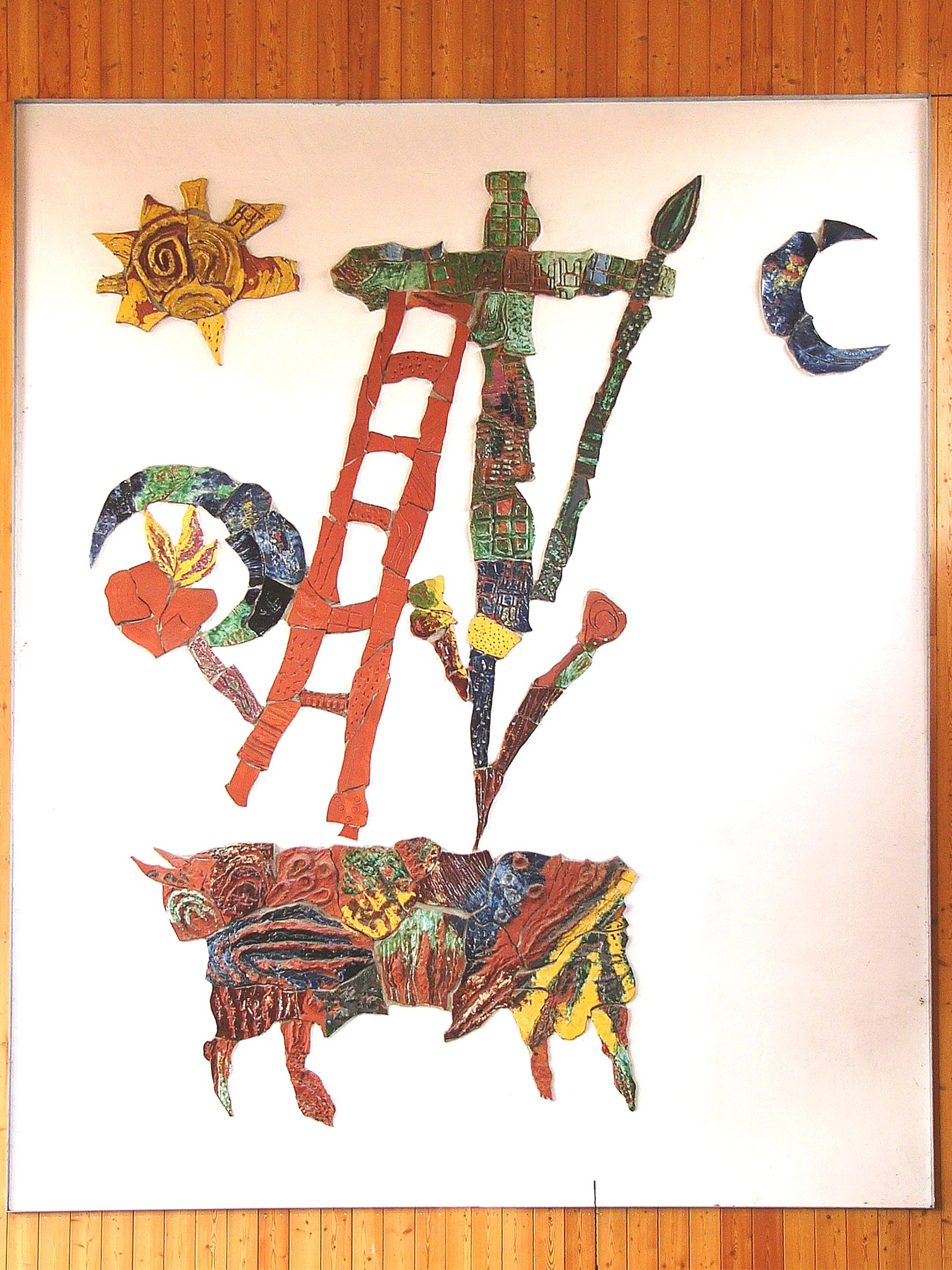 Arma Christi